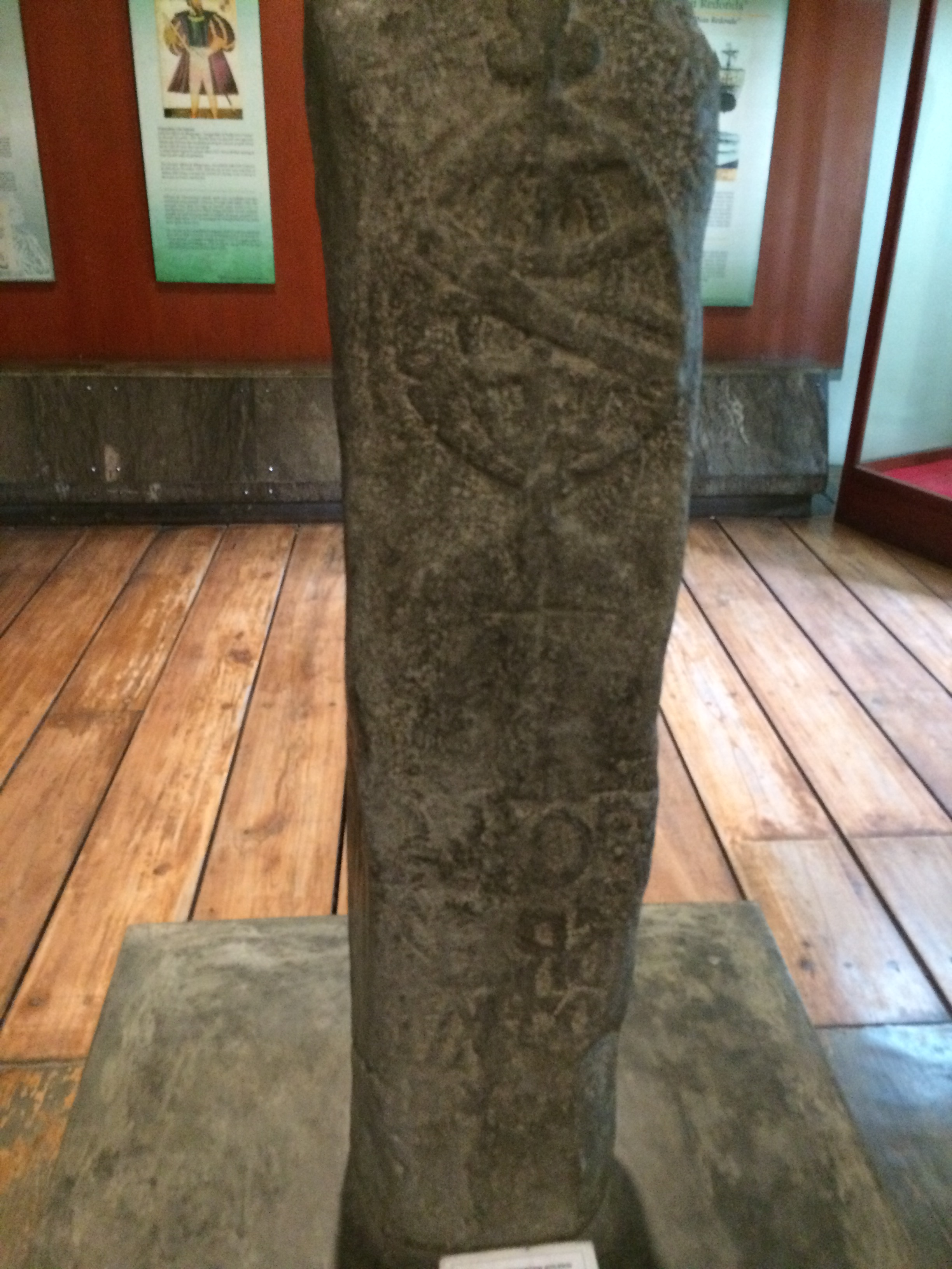 Replica of the Luso-Sundanese Padrão Monument, a stone pillar commemorating a treaty between the kingdoms of Portugal and Sunda. Location: Jakarta History Museum